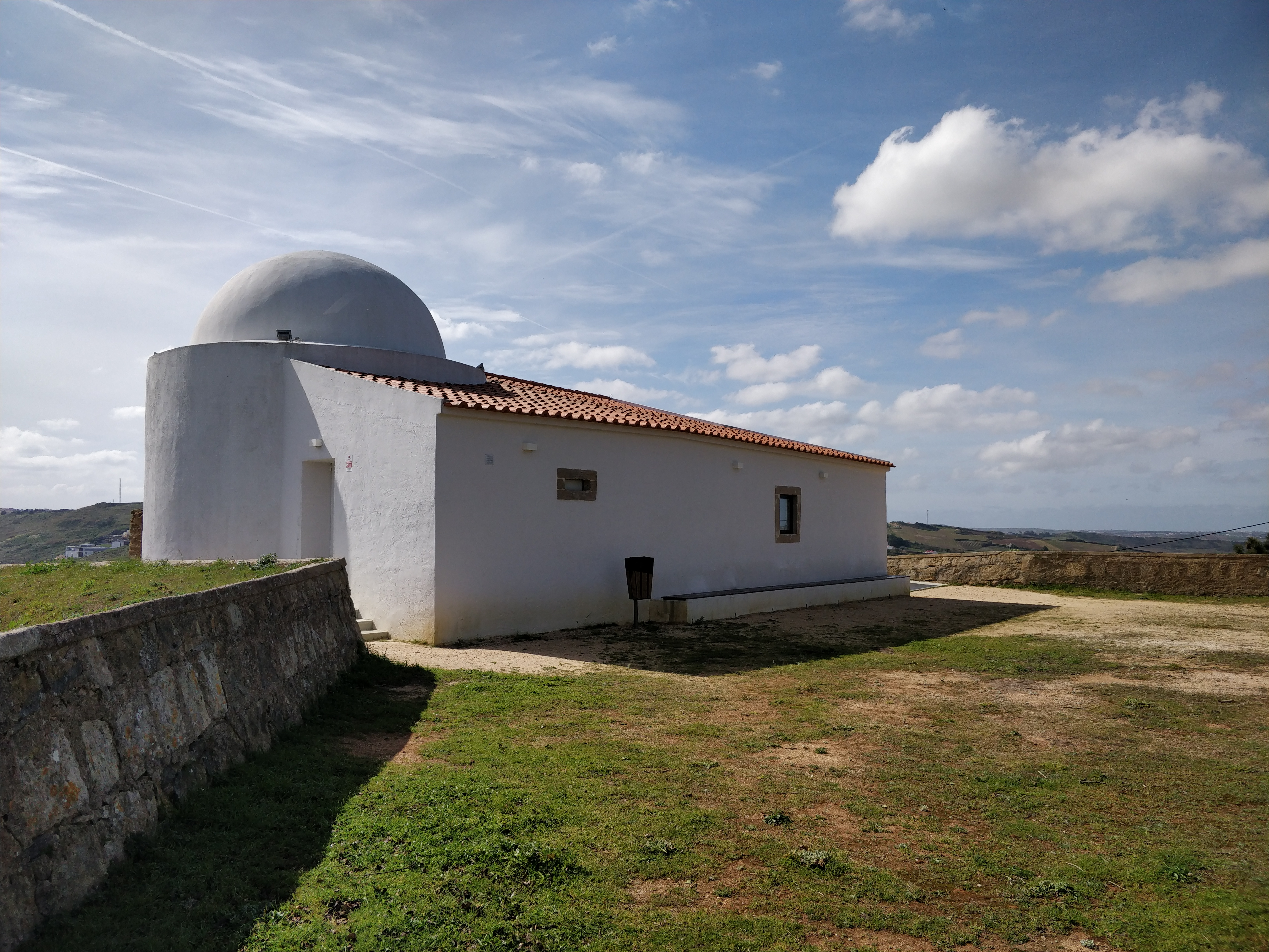 Chapel of São Vicente: part of the fort that now houses the Lines of Torres Vedras Interpretation Centre